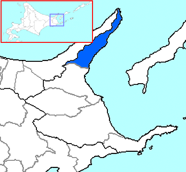 The location of Rausu in Nemuro Subprefecture, Hokkaido Prefecture, Japan.